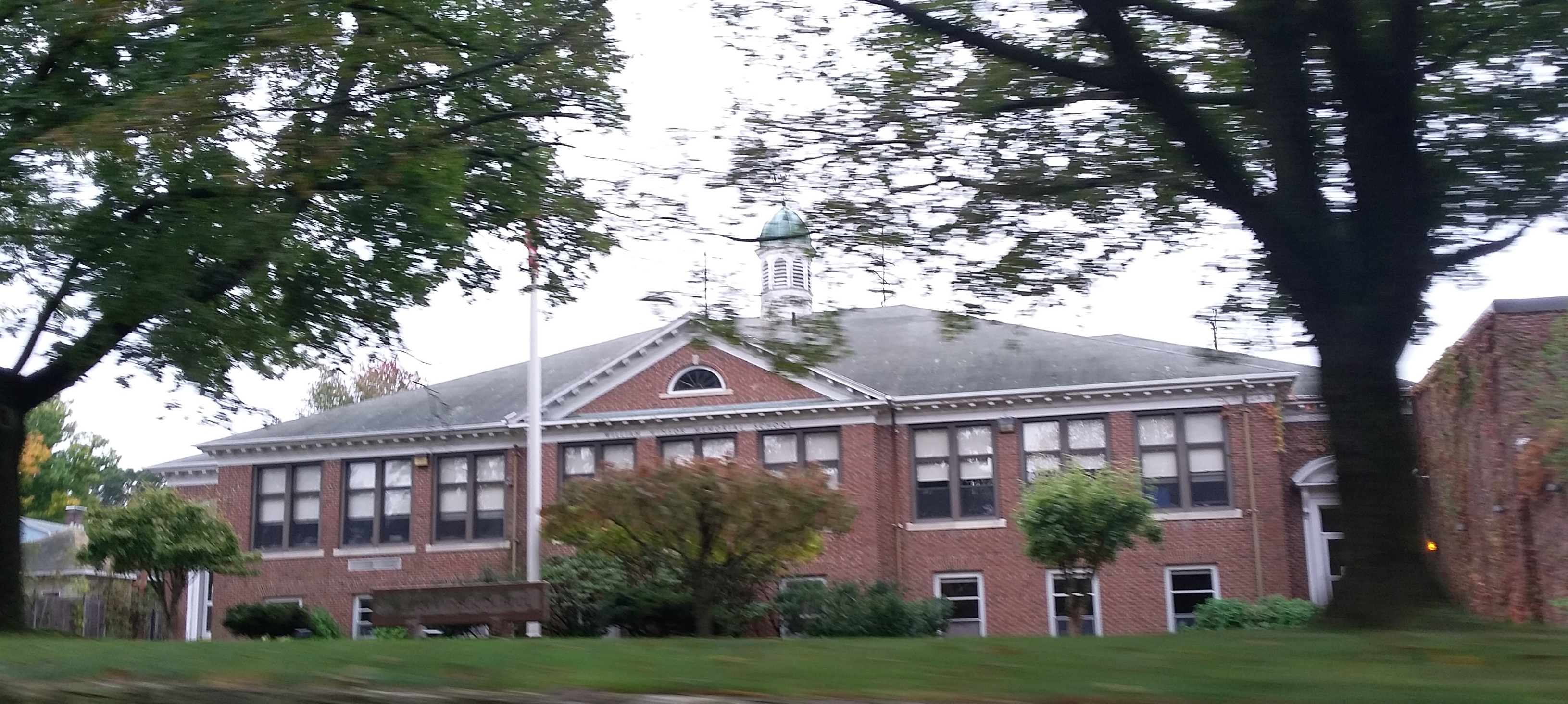 William Winsor School in the village of Greenville Rhode Island in the town of Smithfield Rhode Island